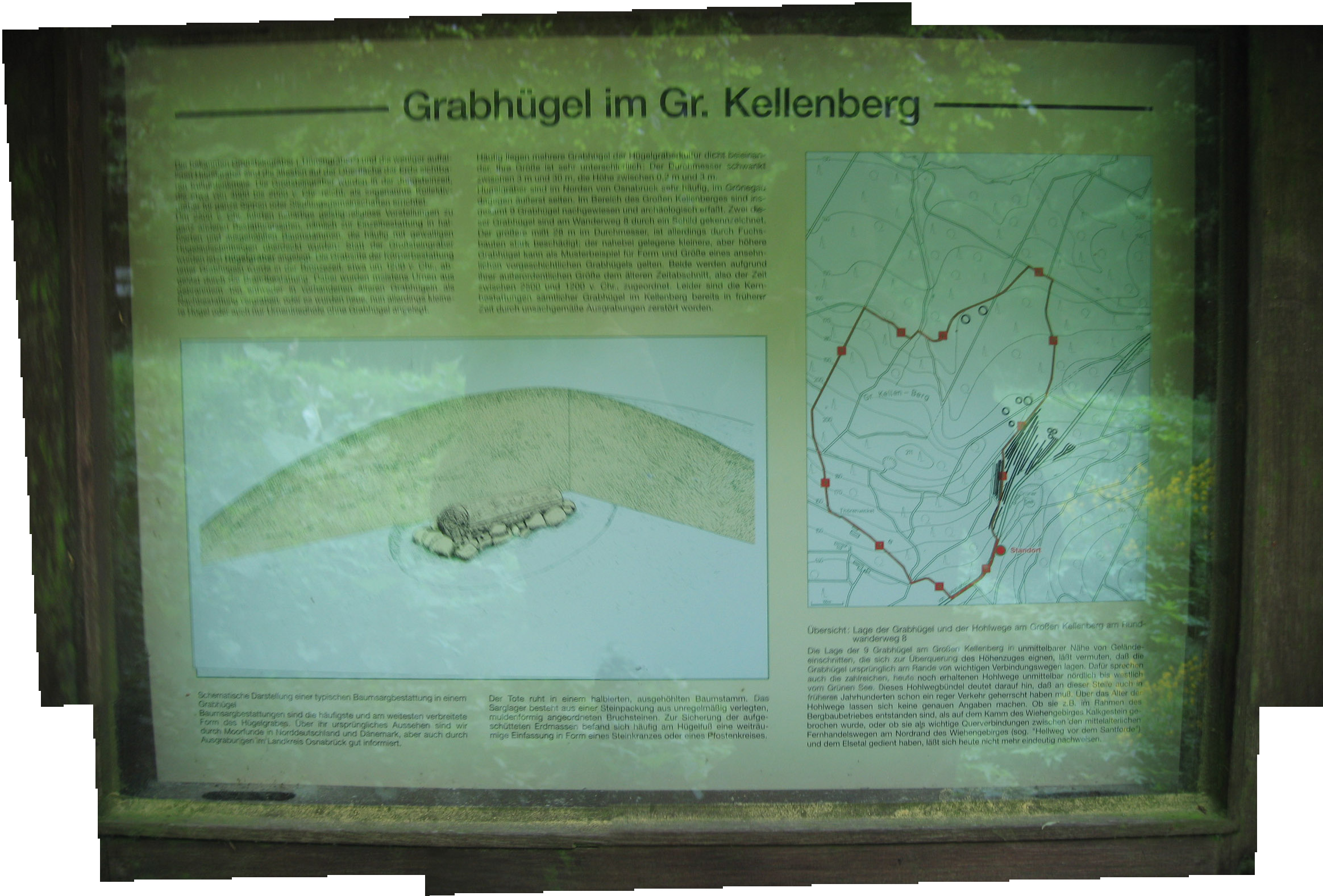 Information sign of Kellenberg historic burial ground near Grüner See lake near Melle, District of Minden-Lübbecke, District of Osnabrück, Lower Saxony.